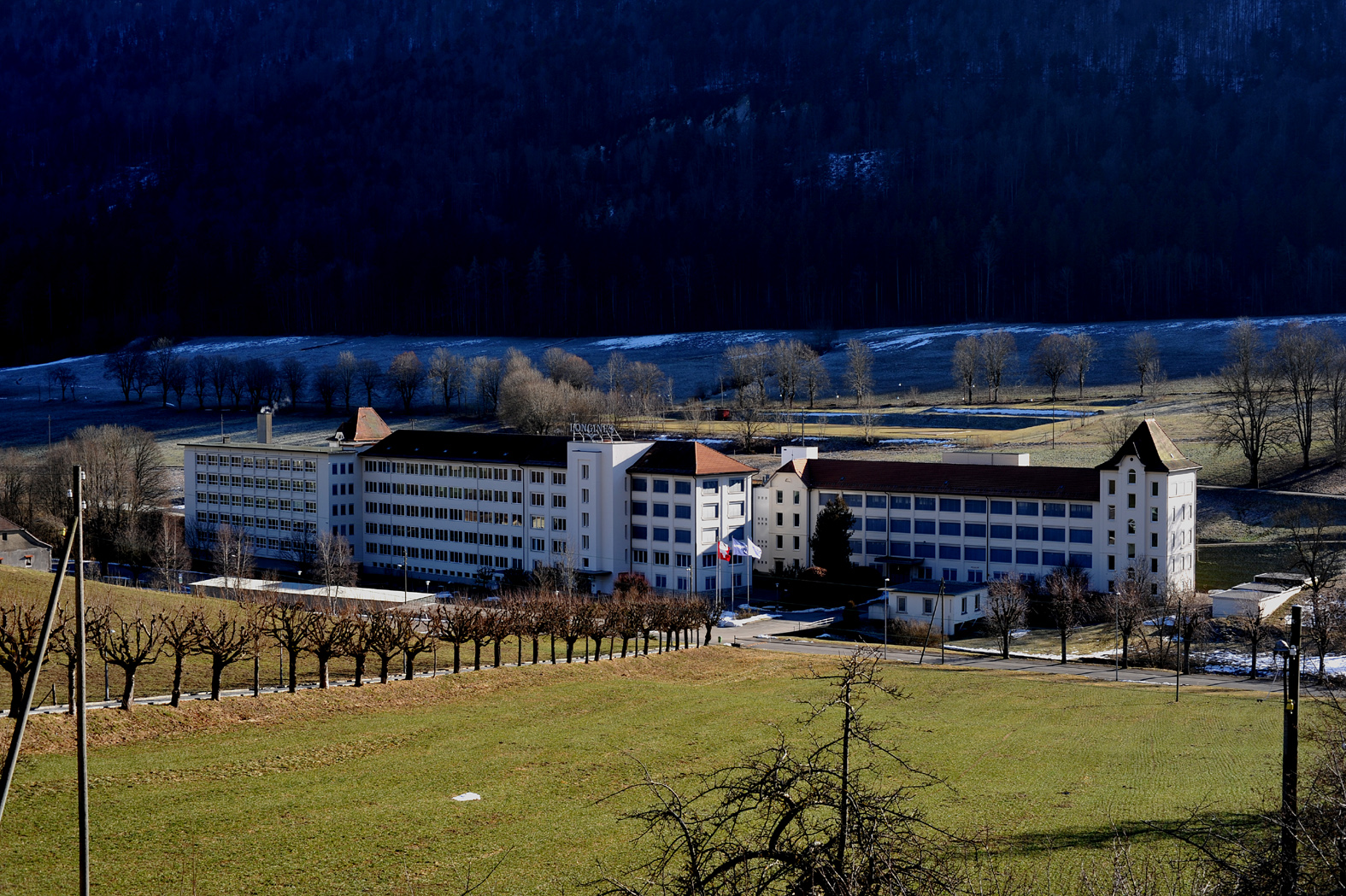 Company headquarters of the watch manufacturer Longines in Saint-Imier, building from 1832; Berne, Switzerland.